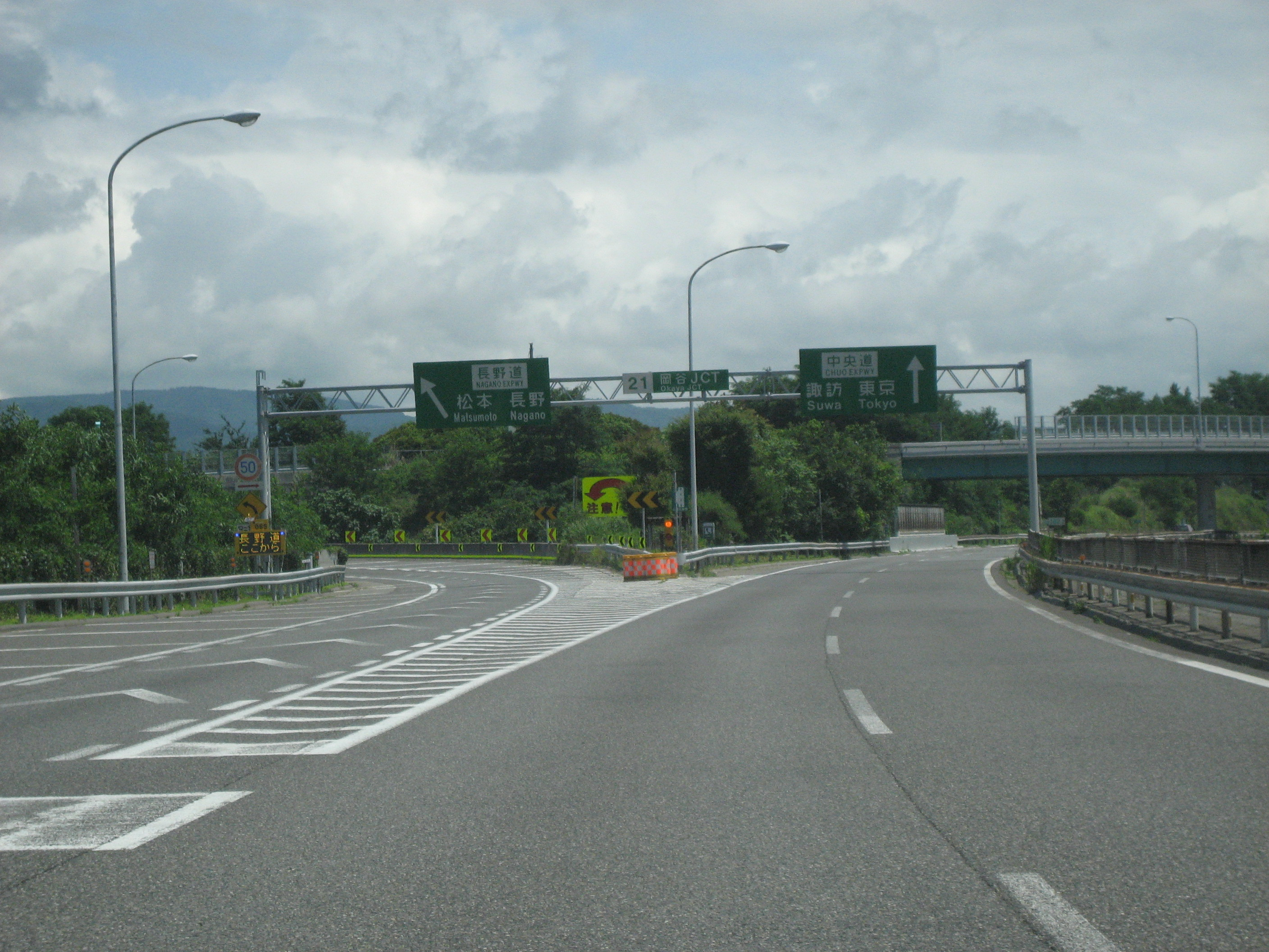 Okaya Junction on the Chuo Expressway inbound line (for Tokyo)